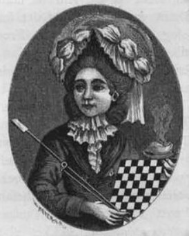 A chalcography of Swedish coffee house owner Maja-Lisa Borgman, d. 1791